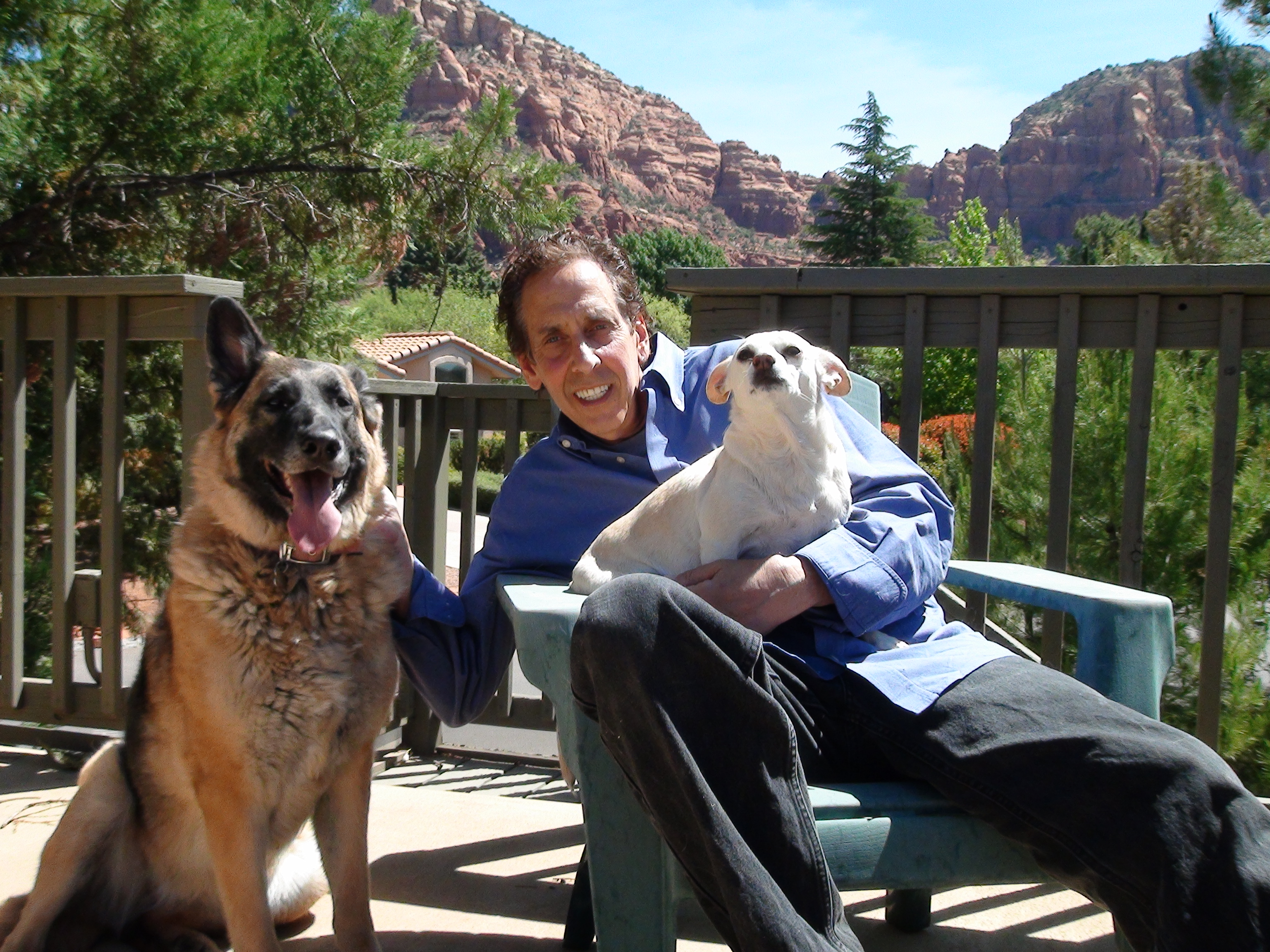 Warren Eckstein at his Sedona, AZ home with his dogs Skyler and Cisco